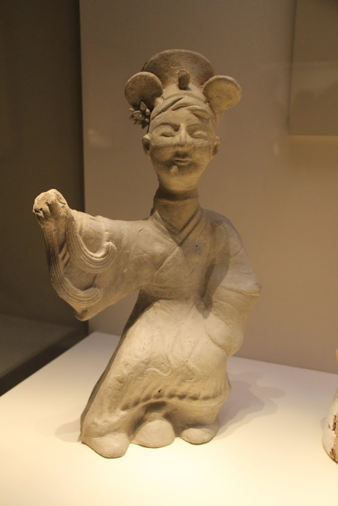 Pottery musician. Three Kingdoms : Shu. National Museum, Beijing